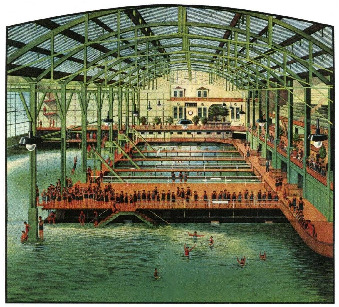 Interior of Sutro Baths in San Francisco, circa 1896